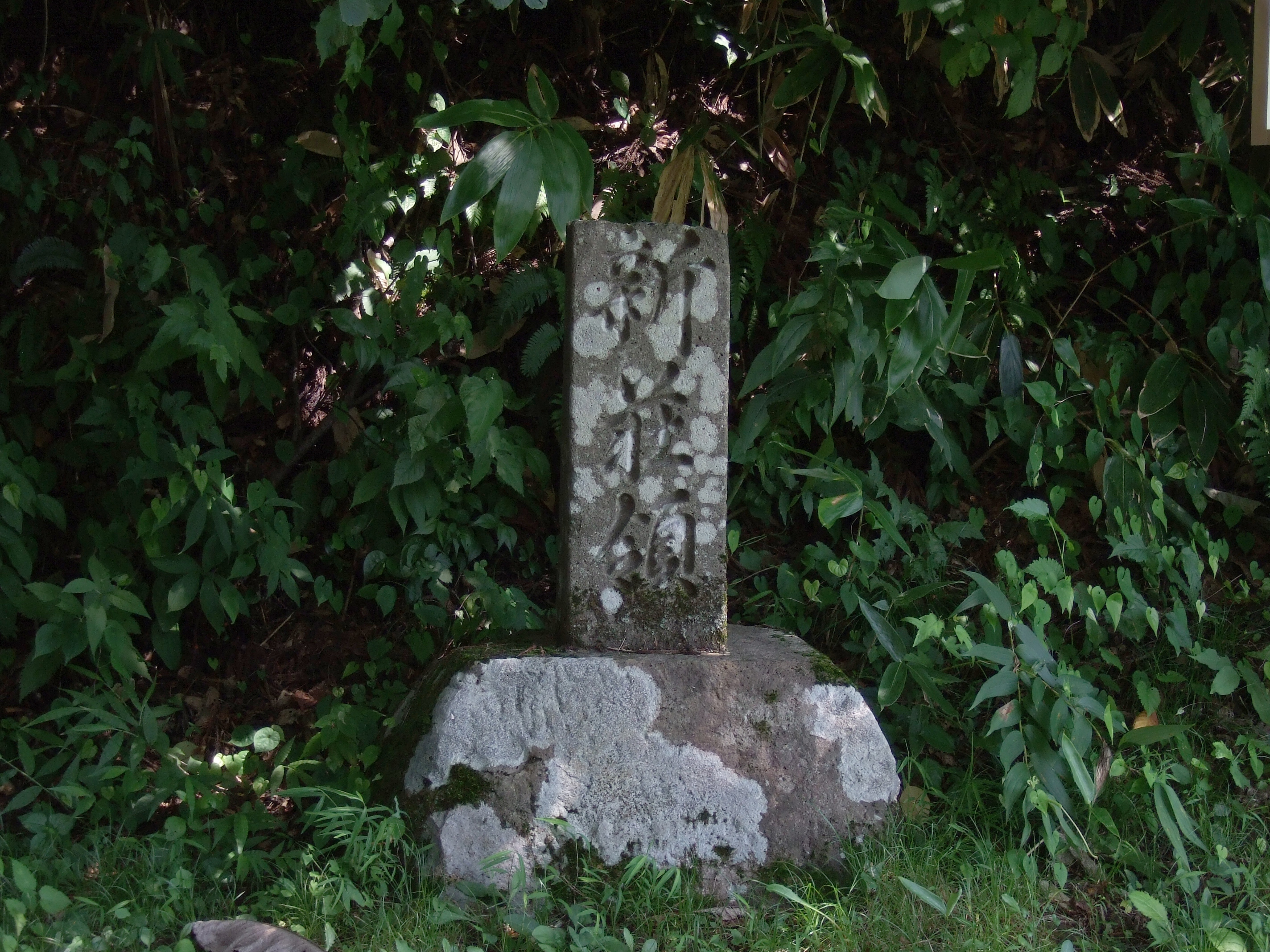 Boundary stone between Sinzyou-han and Tenryou Obanazawa, at Sabane-touge, in Hunagata, Yamagata, Japan. It was written "従是北新荘領" (The north is Sinzyou territory from here), but the first 3 characters have been lost.